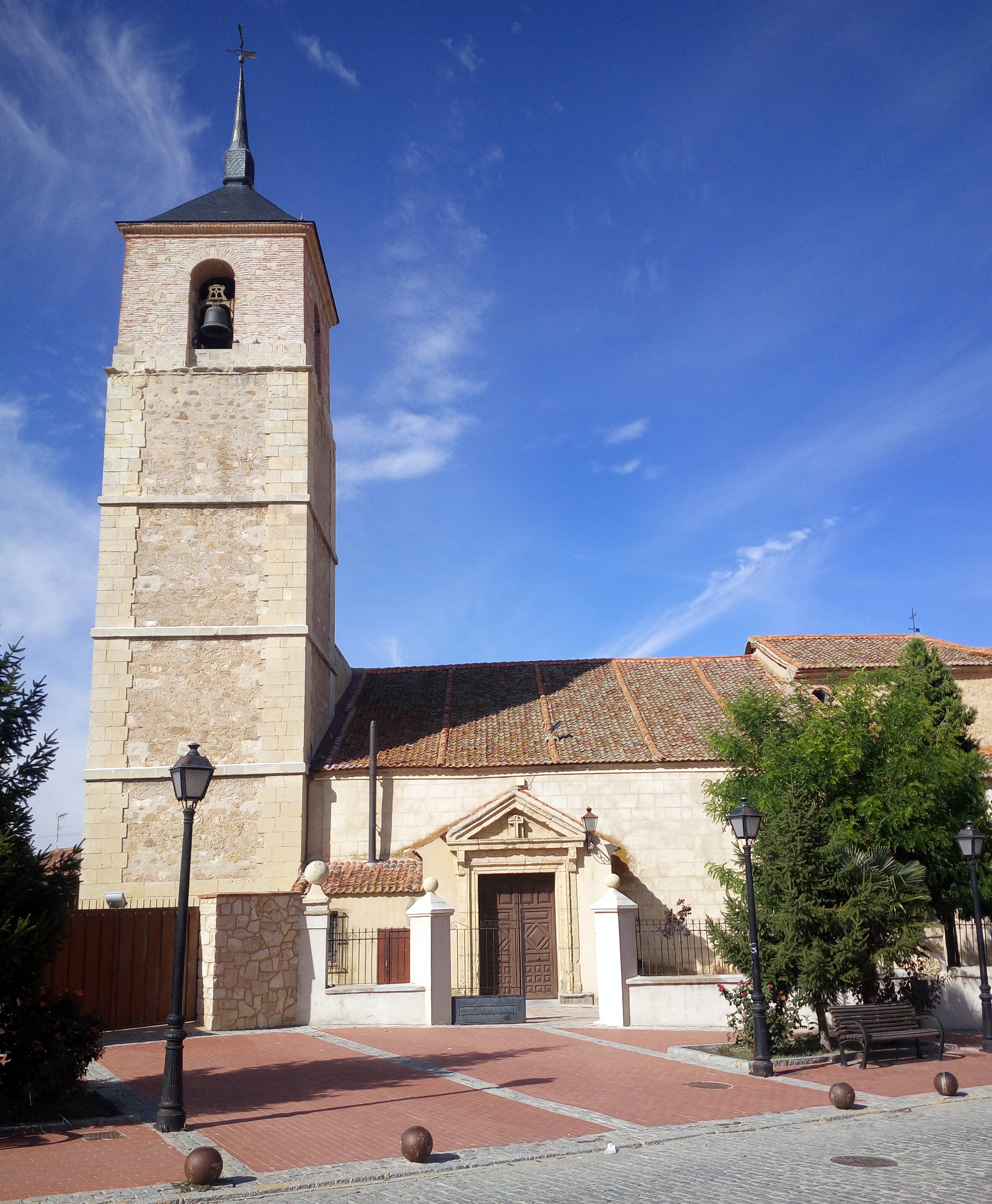 Church of the Inmaculate Conception in Cantimpalos, Segovia, Spain.